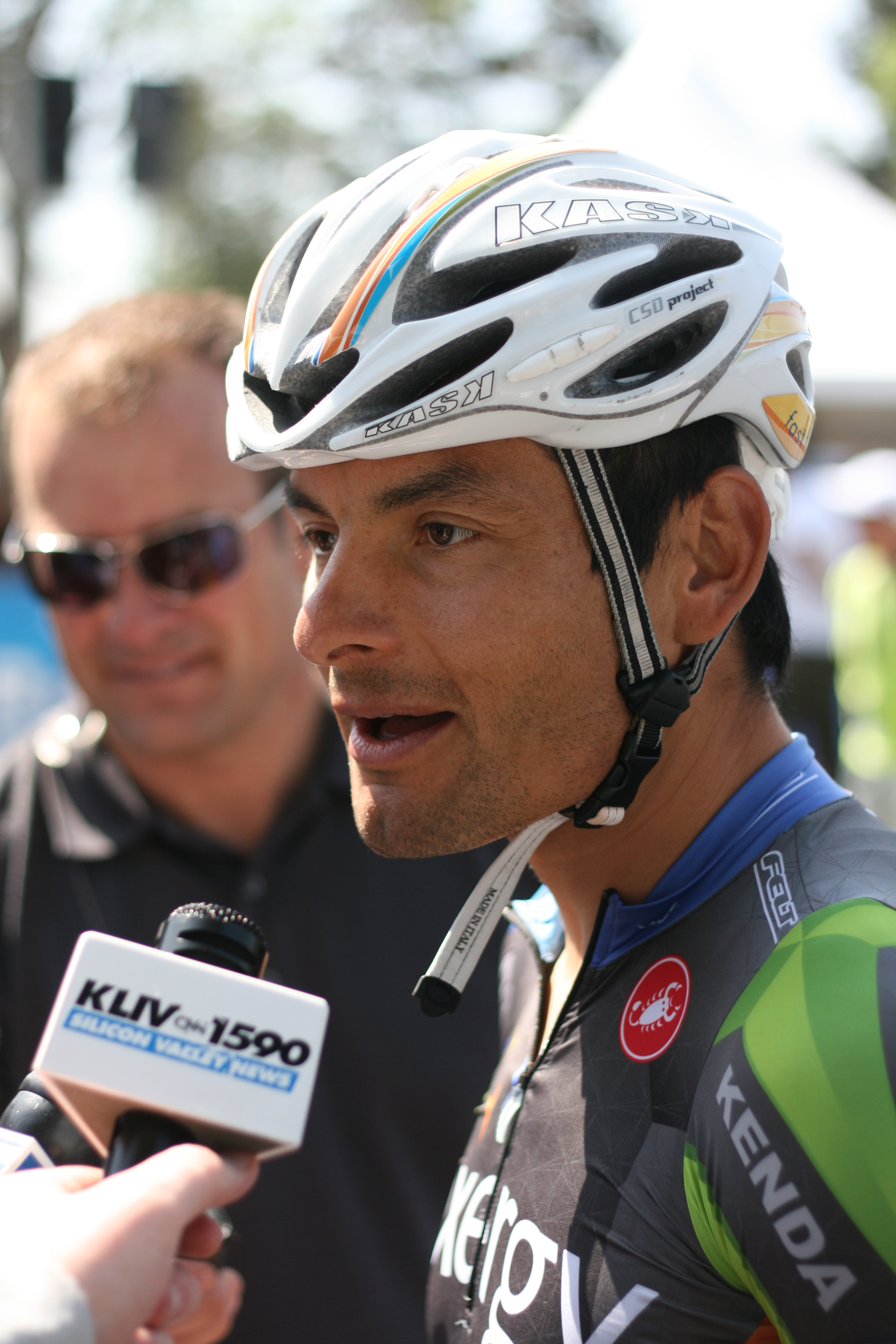 2012 Amgen Tour of California Stage 3 start, Berryessa Road, San Jose, CA